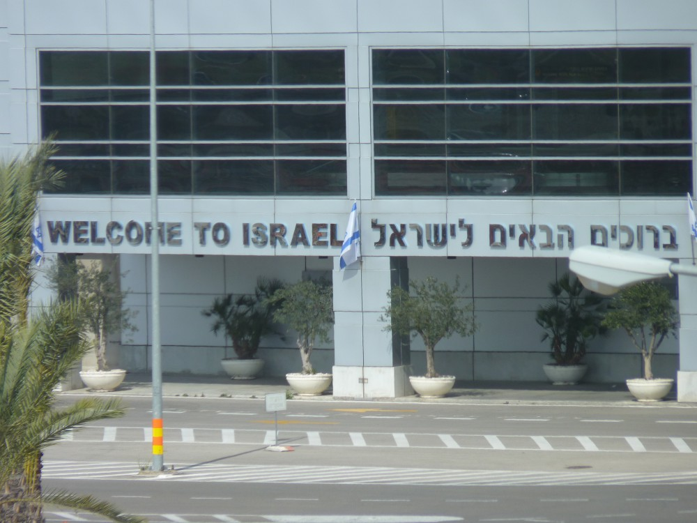 Sign „Welcome to Israel“ at Ben Gurion Airport, Israel